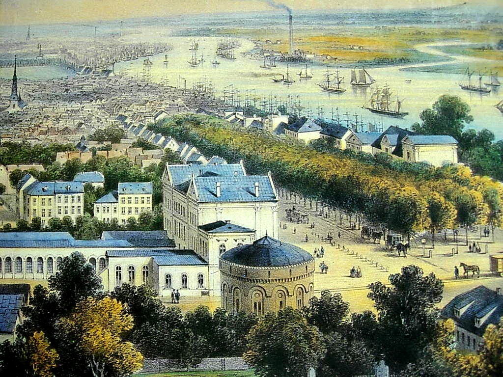 Altona (today Hamburg-Altona), Germany, around 1860. detail